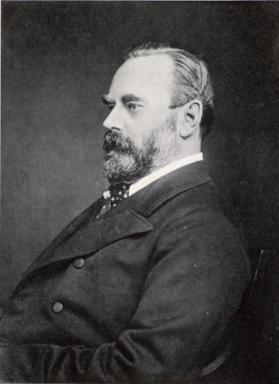 Depicted person: Wilbraham Egerton, 1st Earl Egerton – British politician